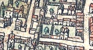 Chaume gate on the plan of Braun and Hogenberg (c.1530, published in 1572, edition of 1593).